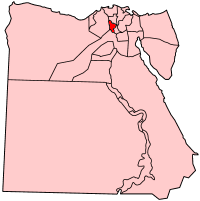 Map of Egypt showing Al Monufiyah (Menufeya) governorate. Made by User:Golbez based on PD maps.